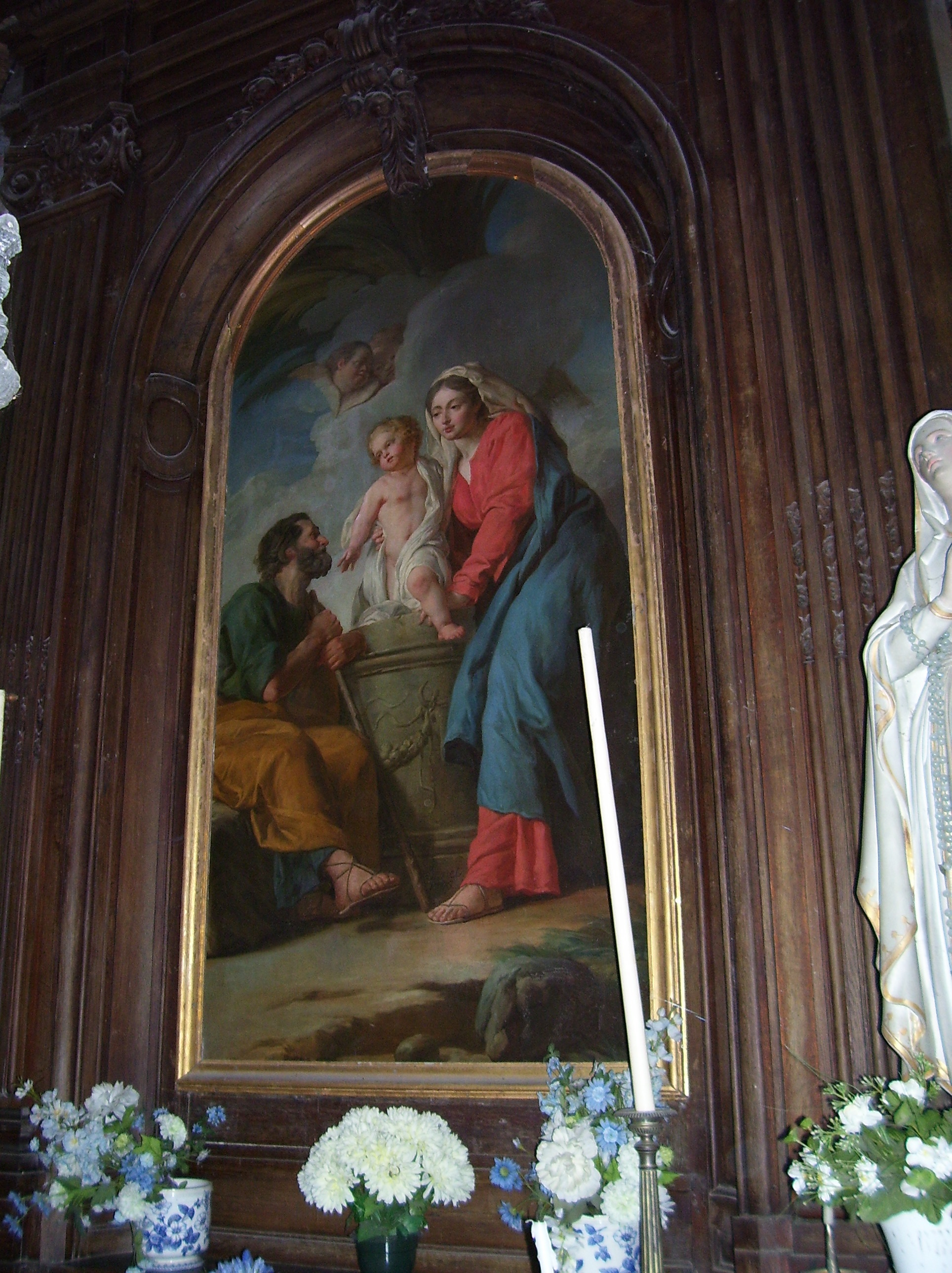 Altarpiece: The holy family